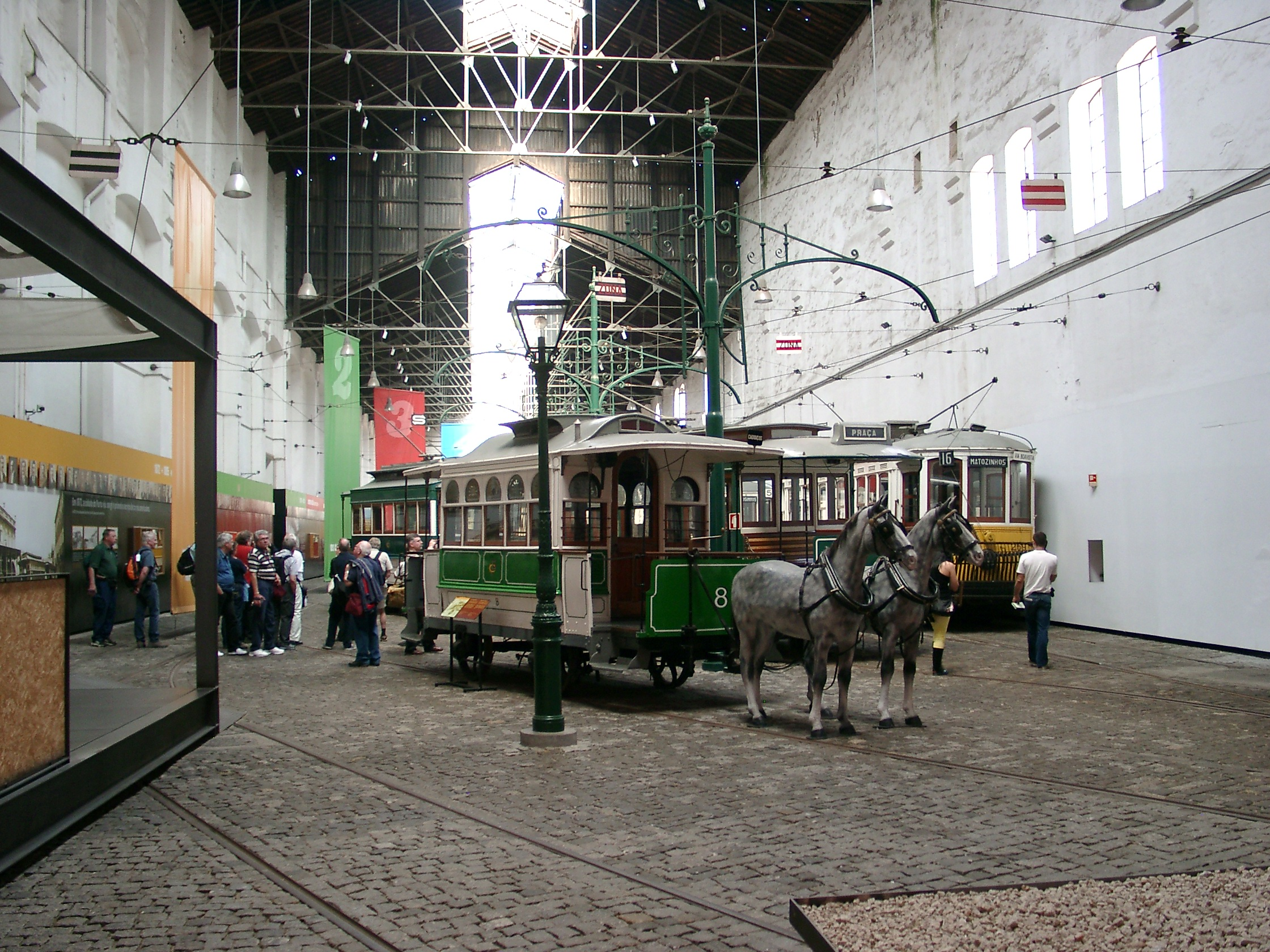 Tramway Museum, Porto